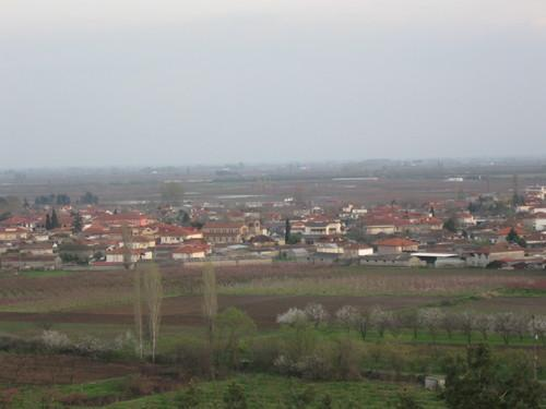 Panoramic view of the village Kali in Pella prefecture, Greece.